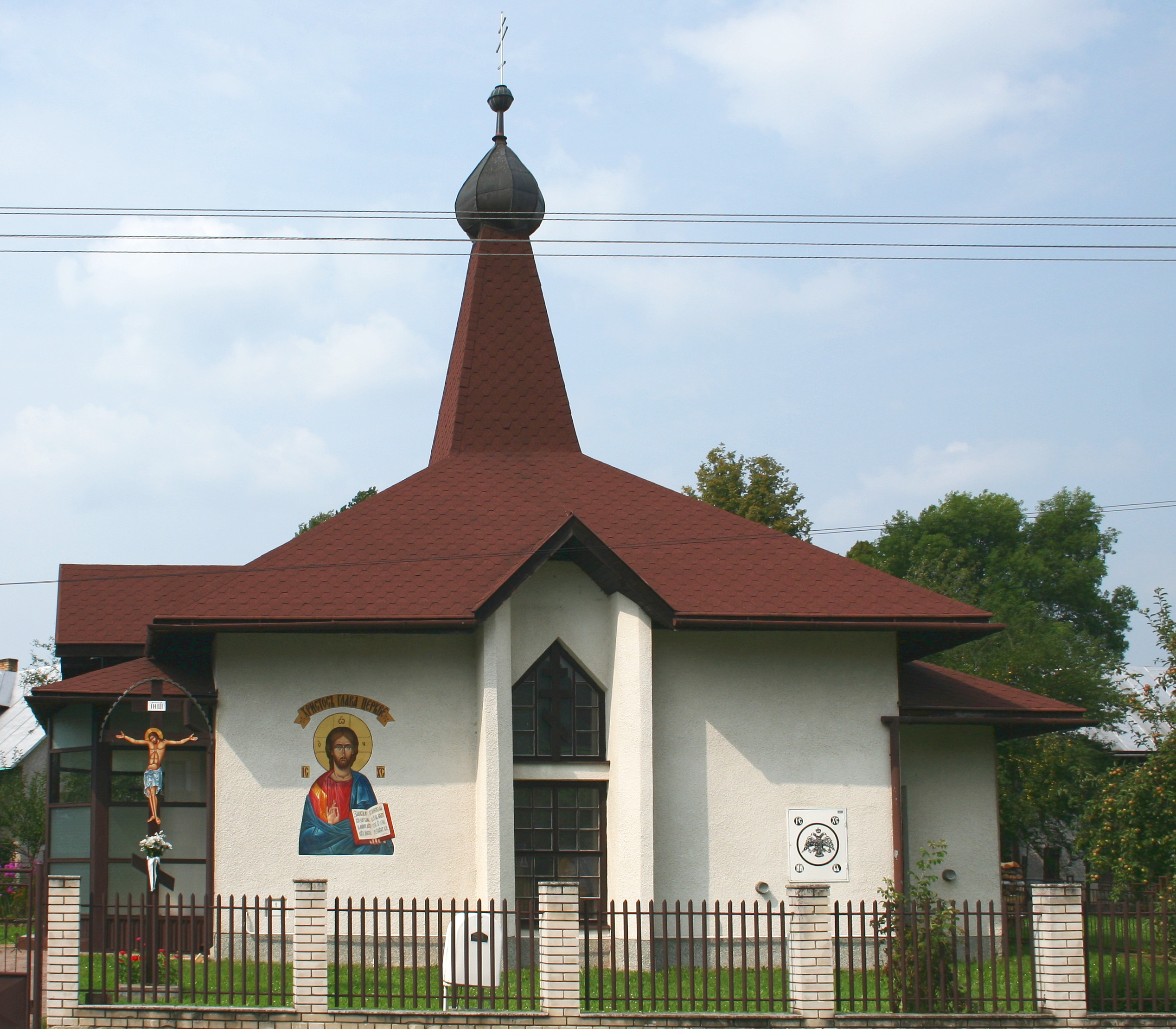 cerkiew in Nižná Polianka, village in Slovakia